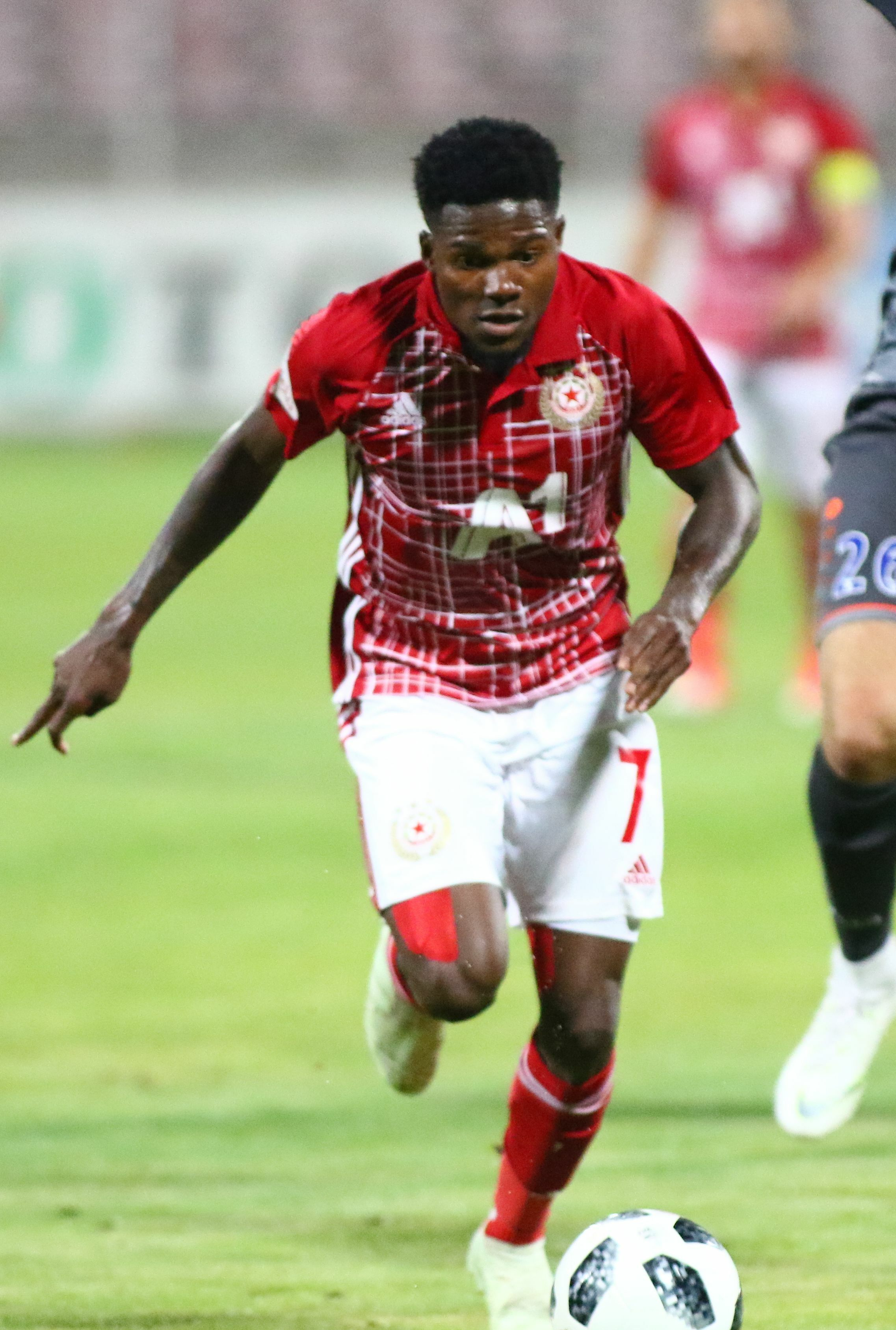 Jorge Fernando Barbosa Intima (born 21 September 1995), known as Jorginho, is a professional footballer who plays as a winger for Bulgarian club PFC CSKA Sofia on loan from AS Saint-Étienne, and the Guinea-Bissau national team.